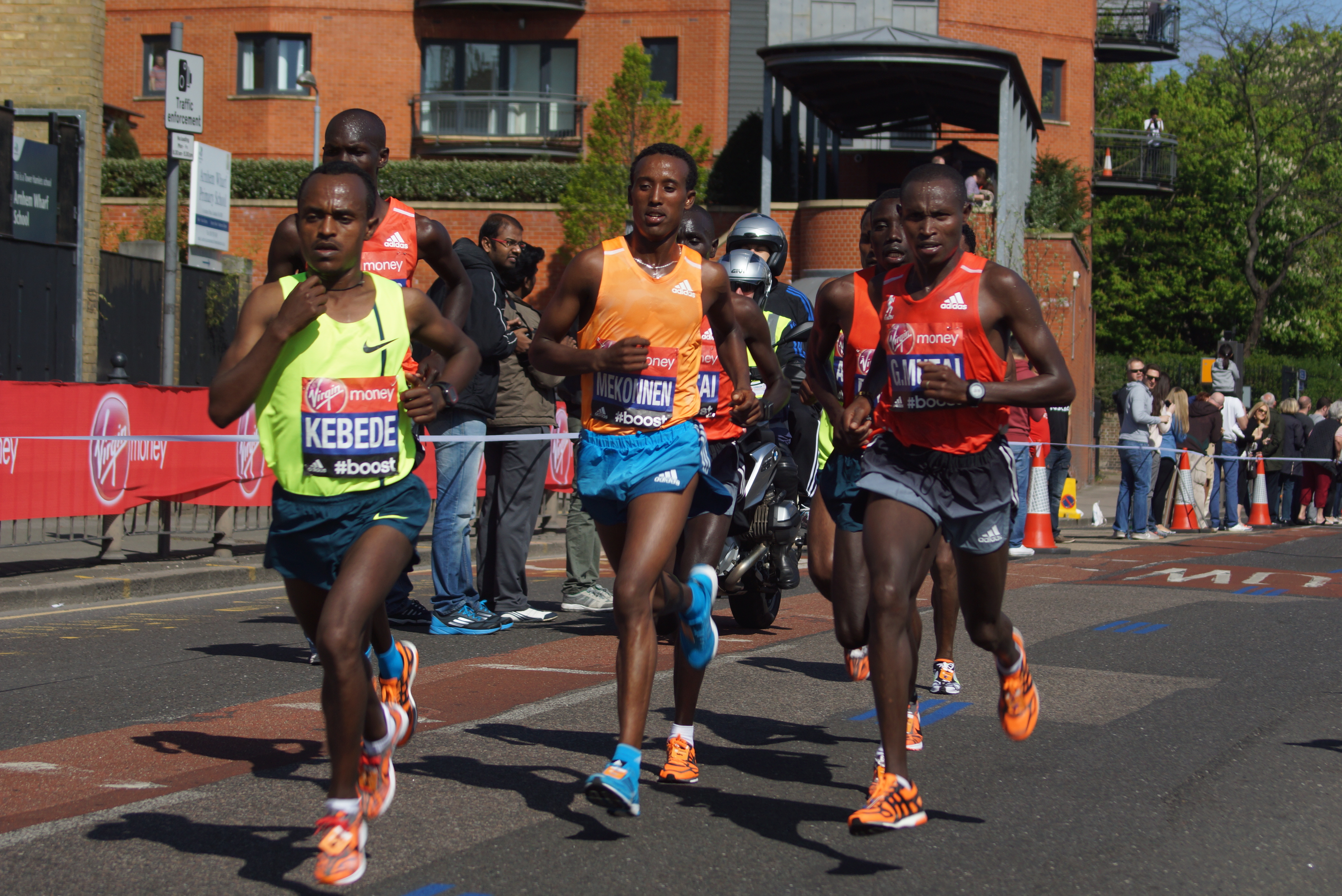 Photograph taken by Julian Mason on 13th April 2014 during the London Marathon. Location Westferry Road on the Isle of Dogs close to Arnhem Place and just before Millwall Outer Dock.